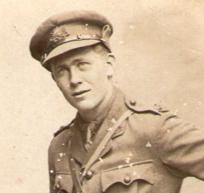 Major Percival Savage, DSO, 3rd Field Company, AIF, 1916 To be used in